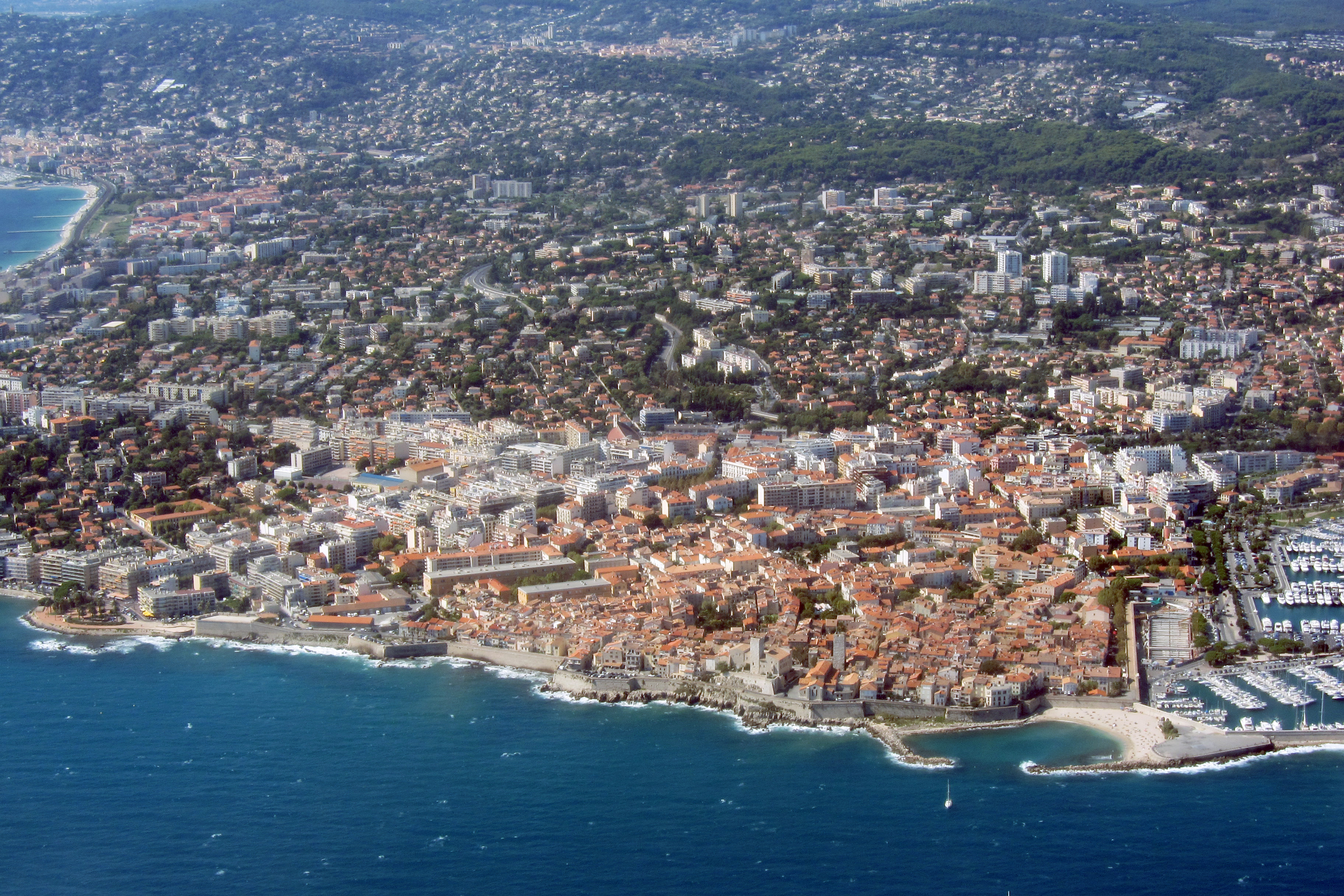 Antibes seen from the sky